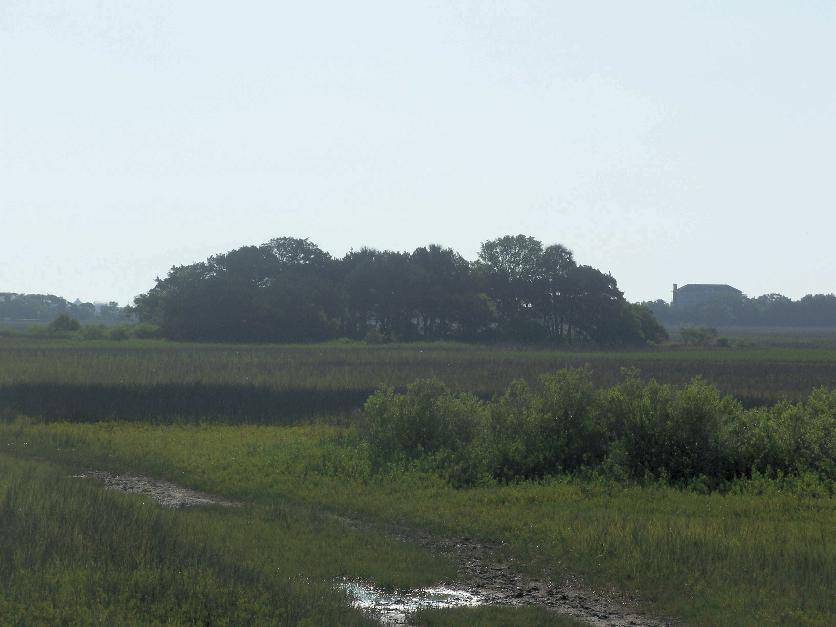 St. Augustine, Florida: Fort Mose Historic State Park: The clump of trees is where the remains of the fort are located.